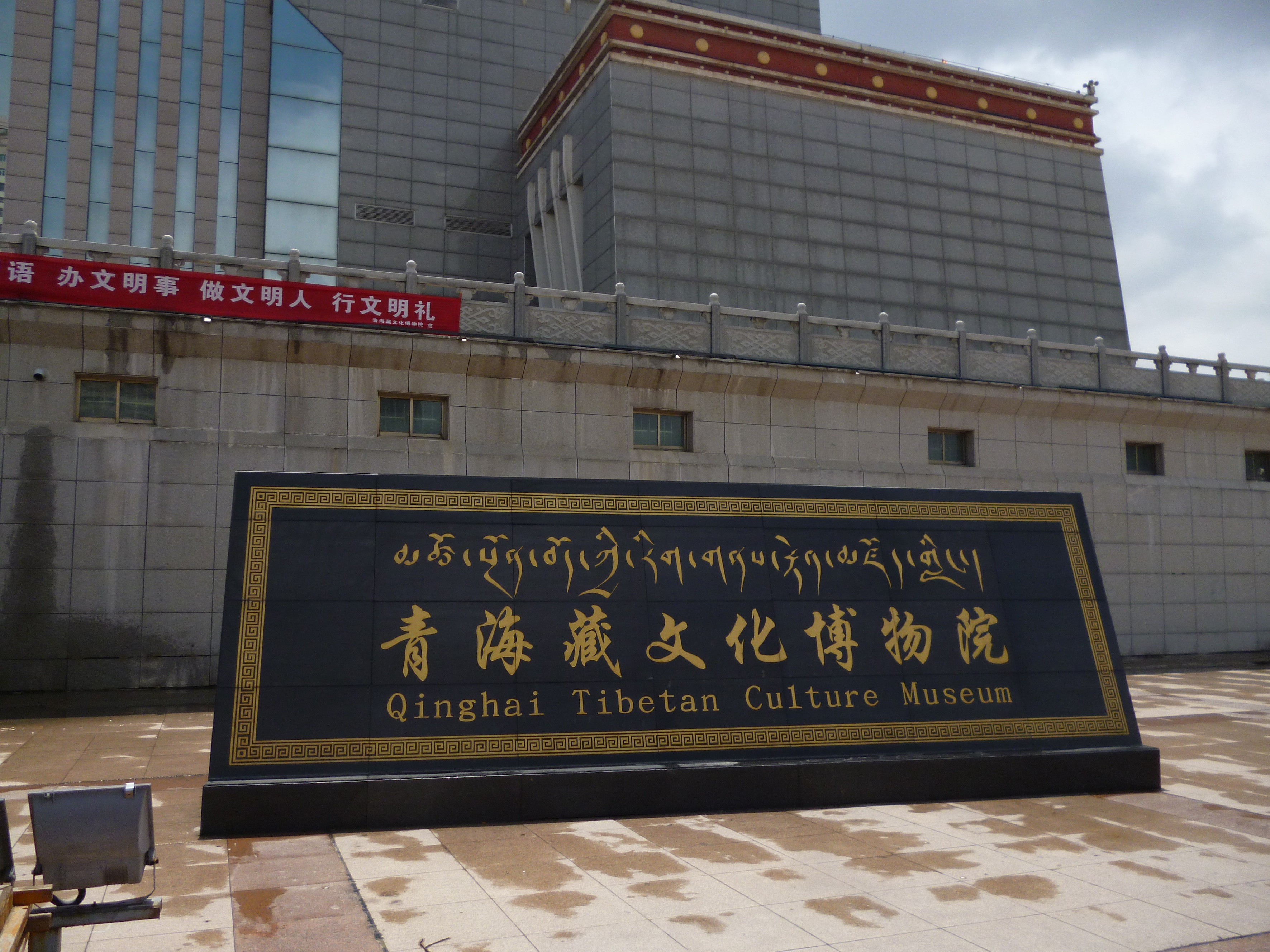 Qinghai Tibentan Cultural Museum in Xining, China